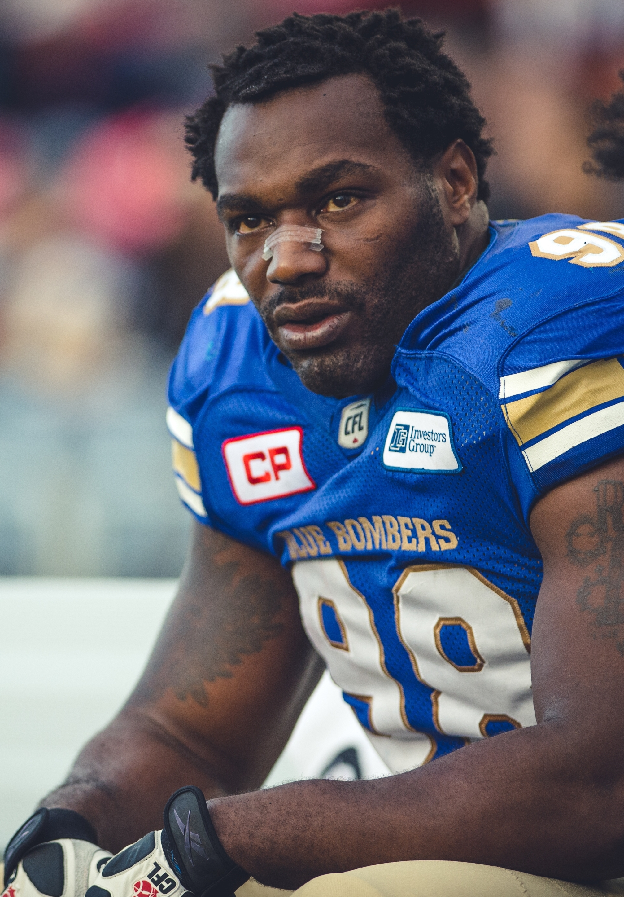 Nathaniel Collins (98) of the Winnipeg Blue Bombers during the pre-season game at TD Place in Ottawa, ON on Monday June 13, 2016. (Photo: Johany Jutras)